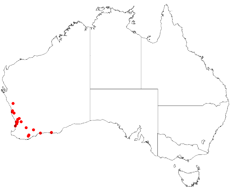 Haemodorum brevisepalum occurrence data from Australasian Virtual Herbarium on 12 May 2017